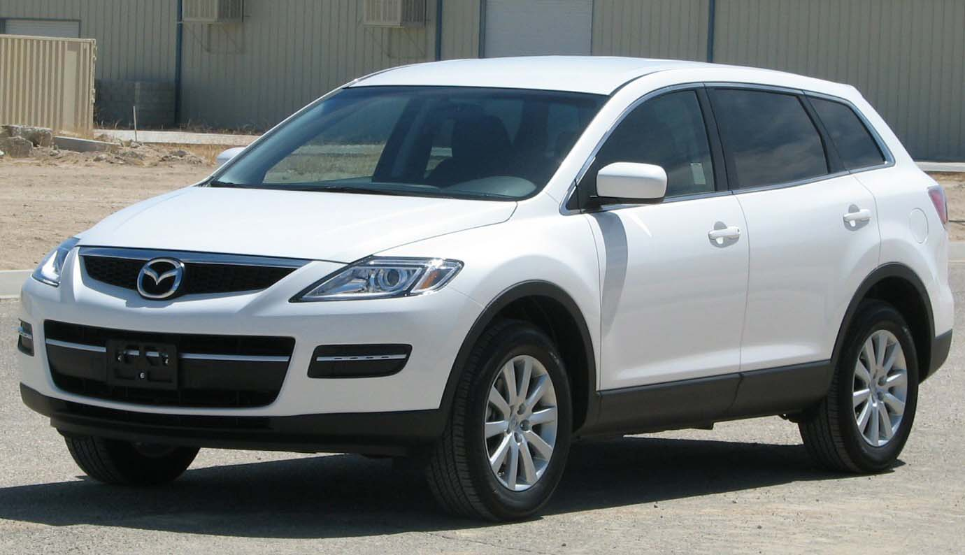 2007 Mazda CX-9 photographed in USA.